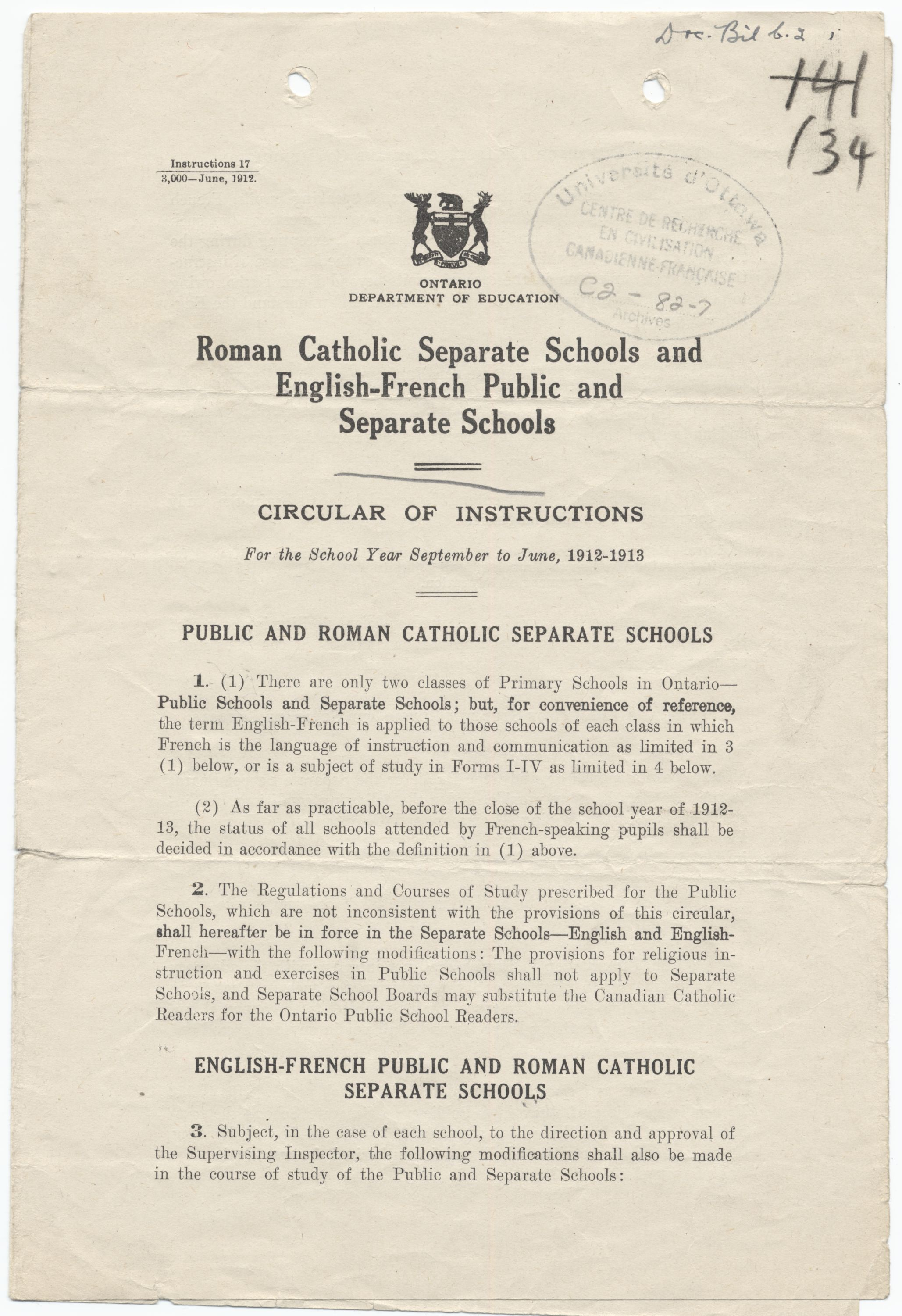 Regulation 17. Ontario, Department of Education, Roman Catholic Separate Schools and English-French Public and Separate Schools (Circular of Instructions No. 17), June 1912, p. 1 to 4.